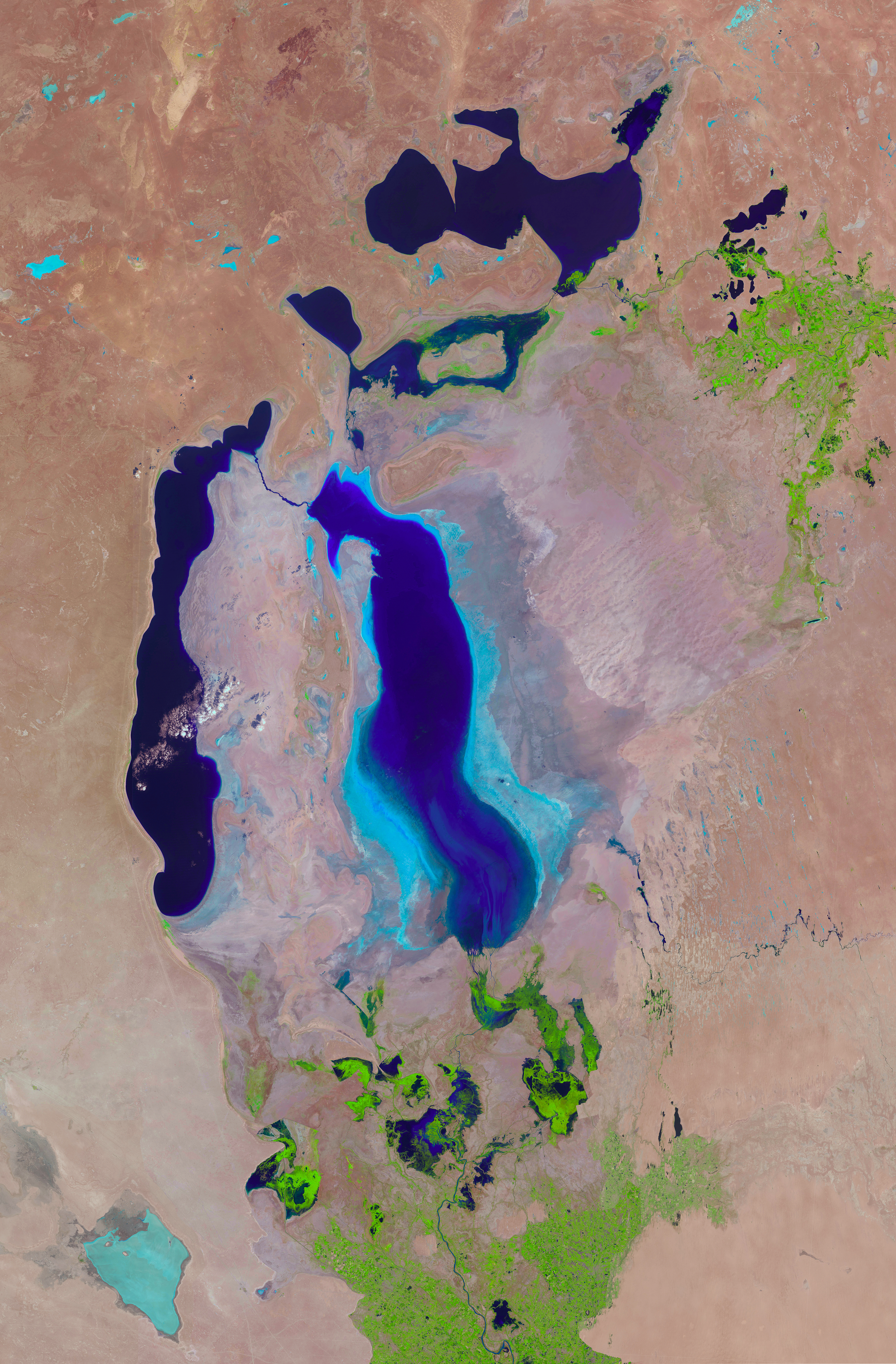 Image acquired 2010 The Aral Sea was once the fourth largest lake in the world. Situated in an otherwise desert region of Kazakstan and Uzbekistan, two rivers, the Syr Darya and the Amu Darya, carried snowmelt and rainfall from distant mountains to where they pooled in the Aral Basin. The Aral Sea supported farming in the river deltas and a fishing industry up through the first half of the 20th century. Then in the 1960s, the Soviet Union converted the local economies to cotton production and diverted the two rivers to irrigate the fields. With no other major source of water, the Aral Sea has been evaporating and shrinking ever since. After 50 years, the lake's area is 25 percent of its original size and it holds just 10 percent of its original volume of water. Credit: NASA/USGS/Landsat NASA image use policy. NASA Goddard Space Flight Center enables NASA’s mission through four scientific endeavors: Earth Science, Heliophysics, Solar System Exploration, and Astrophysics. Goddard plays a leading role in NASA’s accomplishments by contributing compelling scientific knowledge to advance the Agency’s mission. Follow us on Twitter Like us on Facebook Find us on Instagram